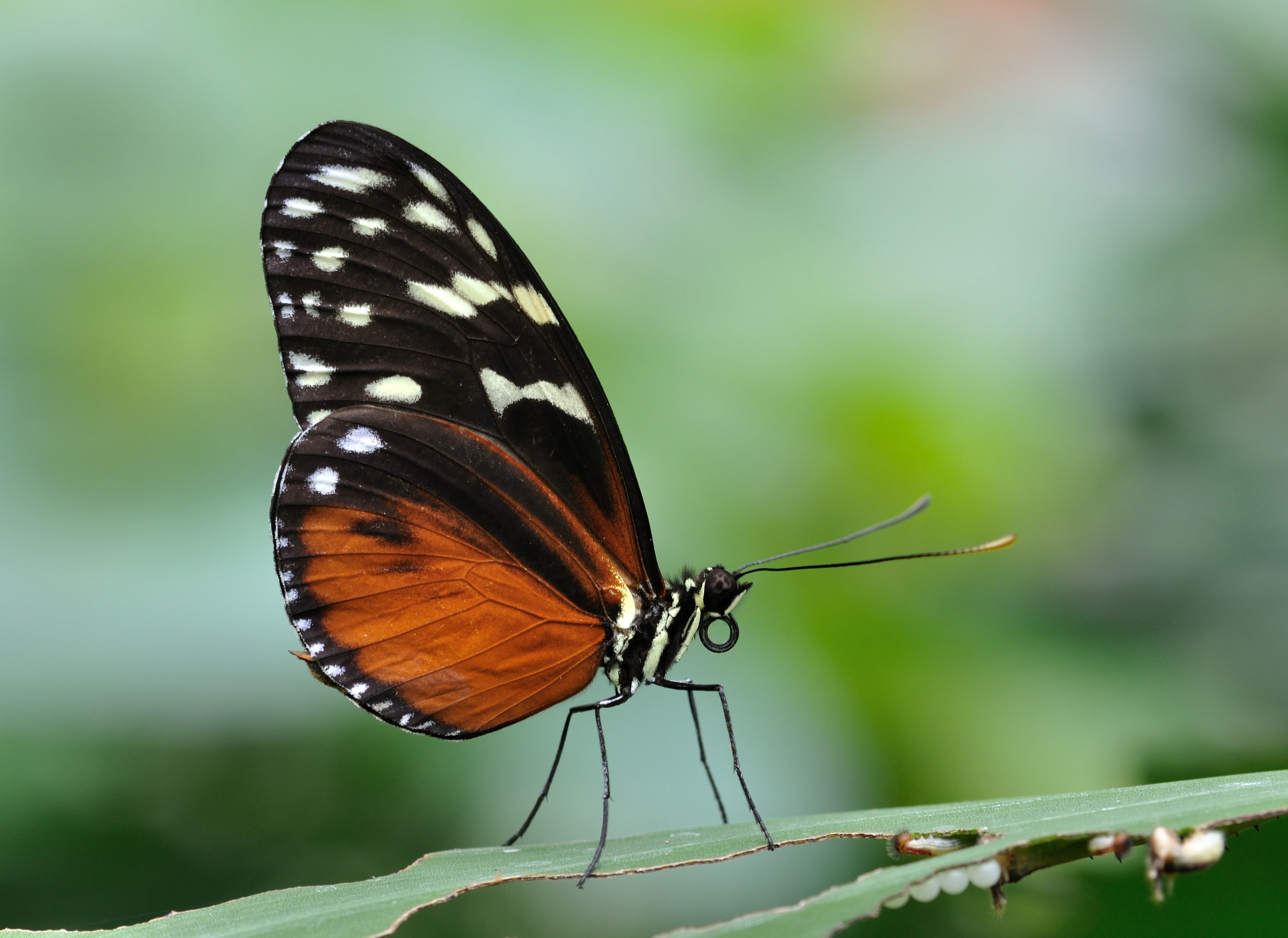 Tiger Longwing (Heliconius hecale) in the butterfly house of Maximilianpark Hamm, Germany.